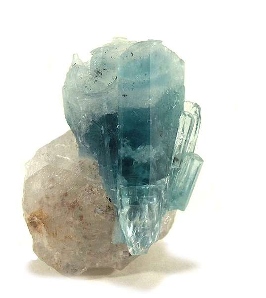 Beryl, Phenakite Locality: Mimoso do Sul Mine, Mimoso do Sul, Espírito Santo, Southeast Region, Brazil (Locality at ) Size: miniature, 3.4 x 2.5 x 1.5 cm Phenakite with Aquamarine A unique combination piece, totally unprecedented in my book, that really is also a cute display piece as much as a fascinating beryl association specimen